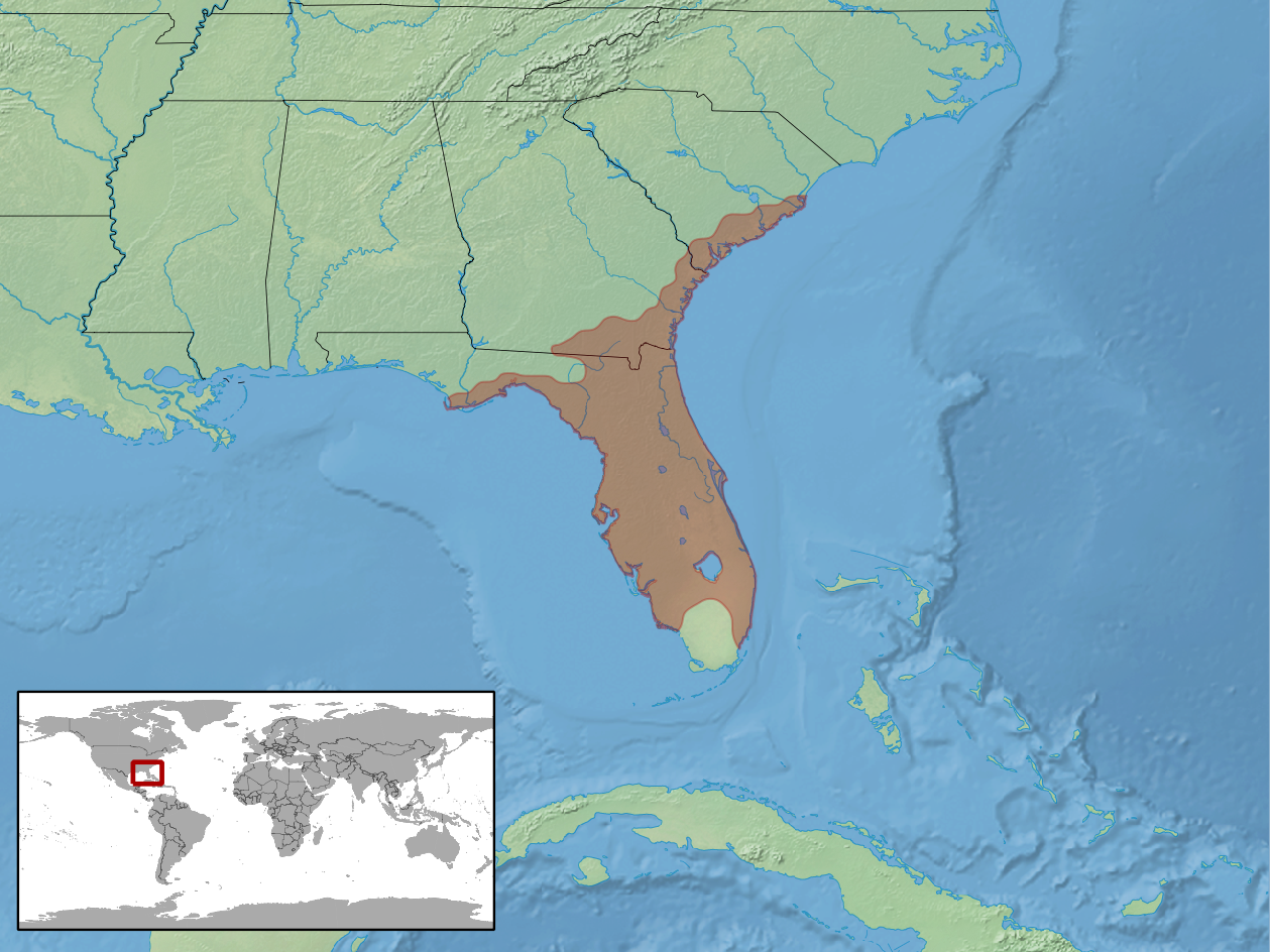 geographic distribution of Ophisaurus compressus (Native: United States)